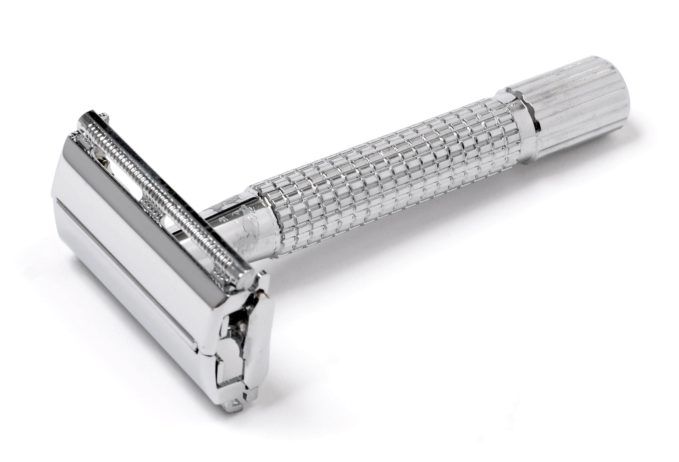 A modern safety razor, based on the classic design.